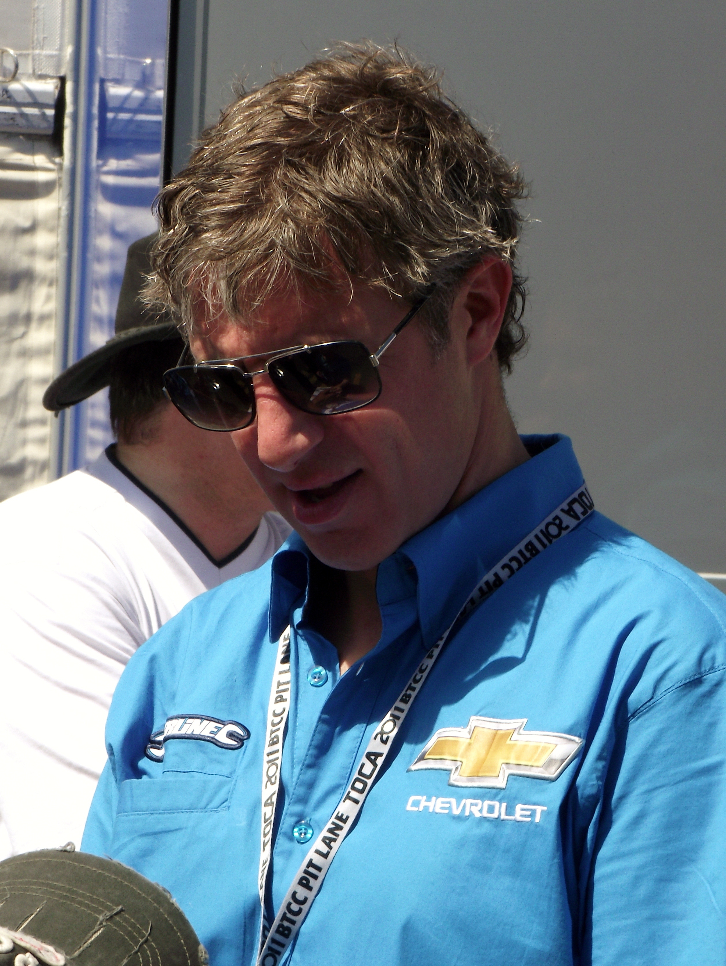 Jason Plato at the Oulton Park round of the 2011 British Touring Car Championship season as a driver for Silverline Chevrolet.